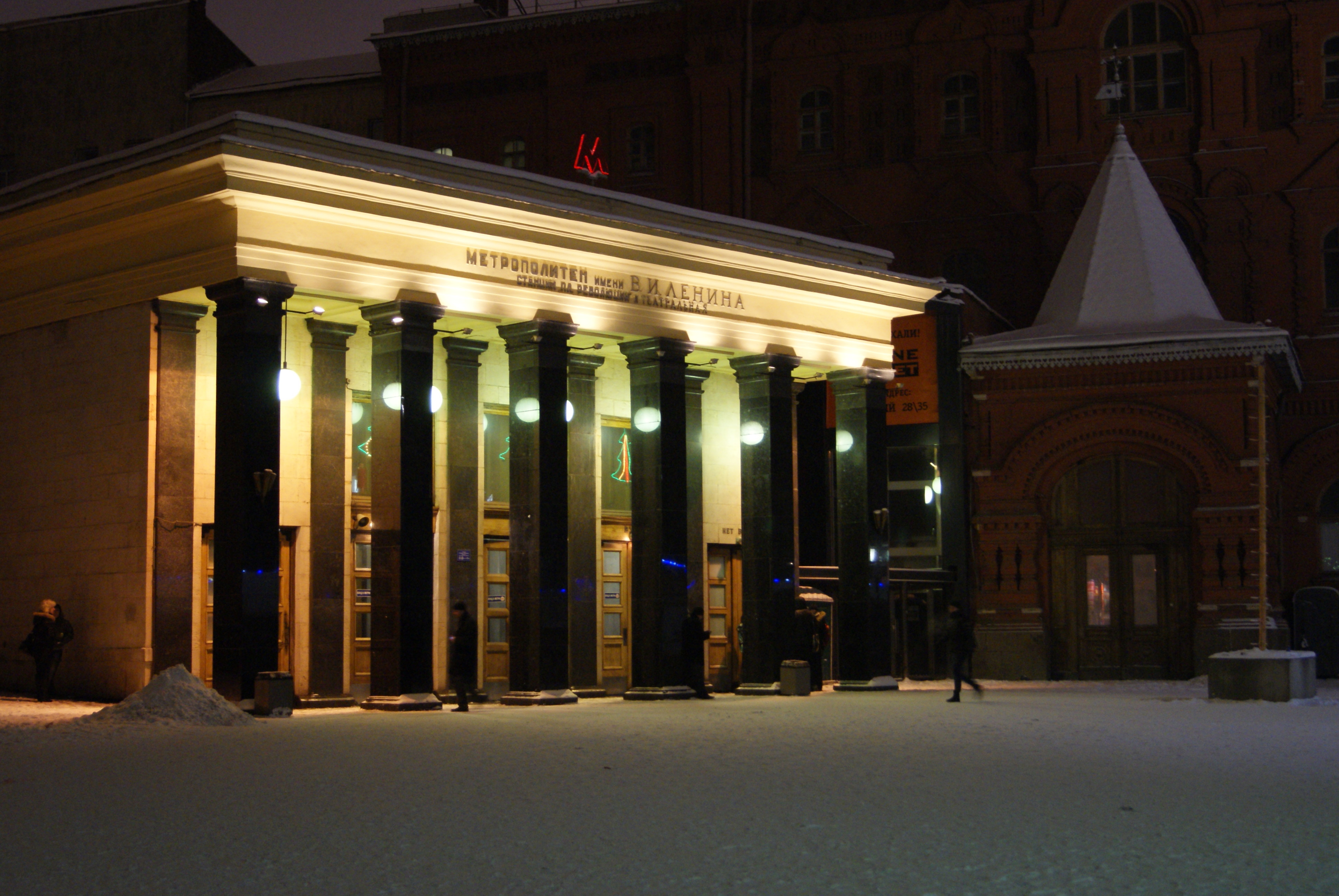 The entrance to the stations Ploshchad Revolyutsii and Teatralnaya